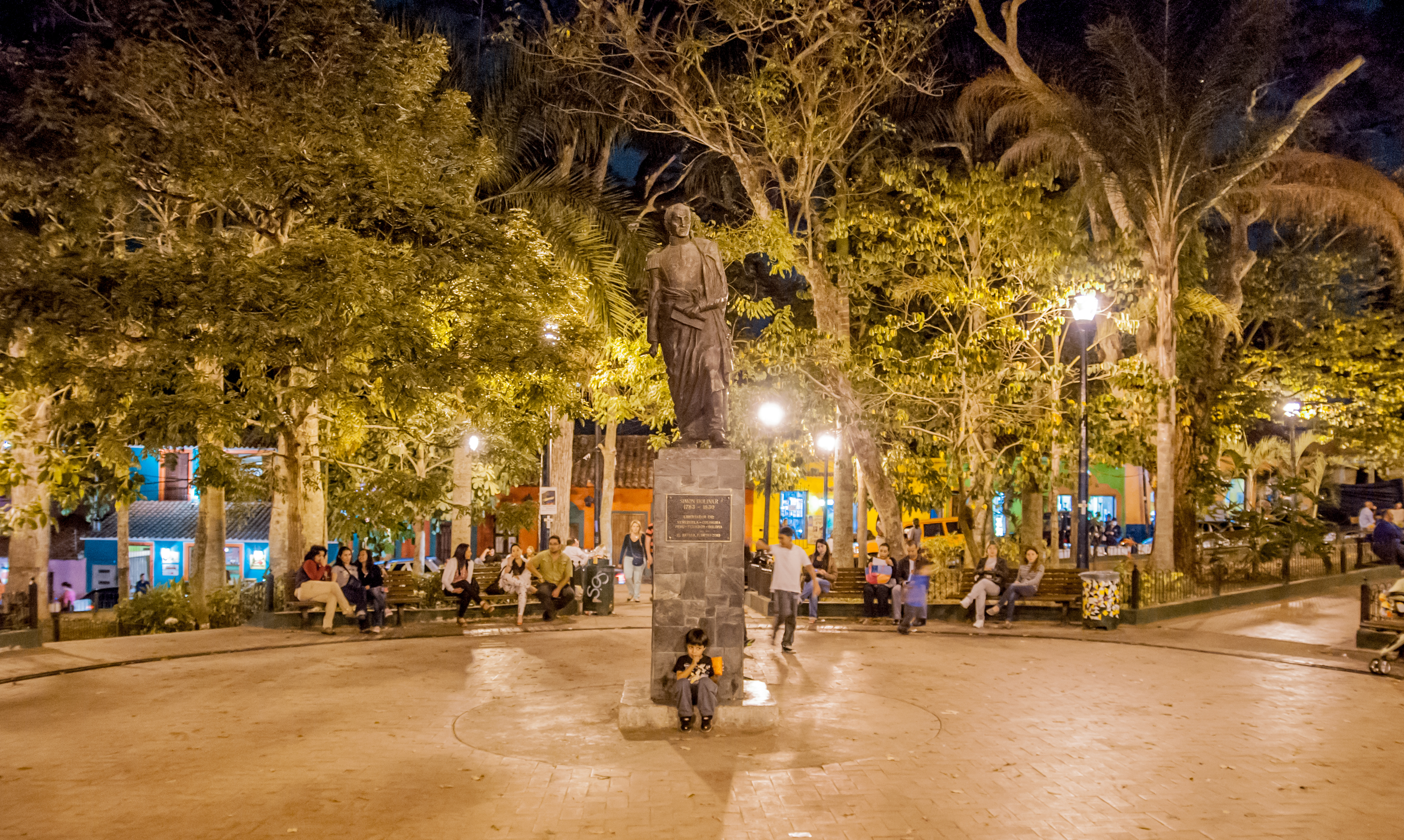 Bolívar Square in Los Teques